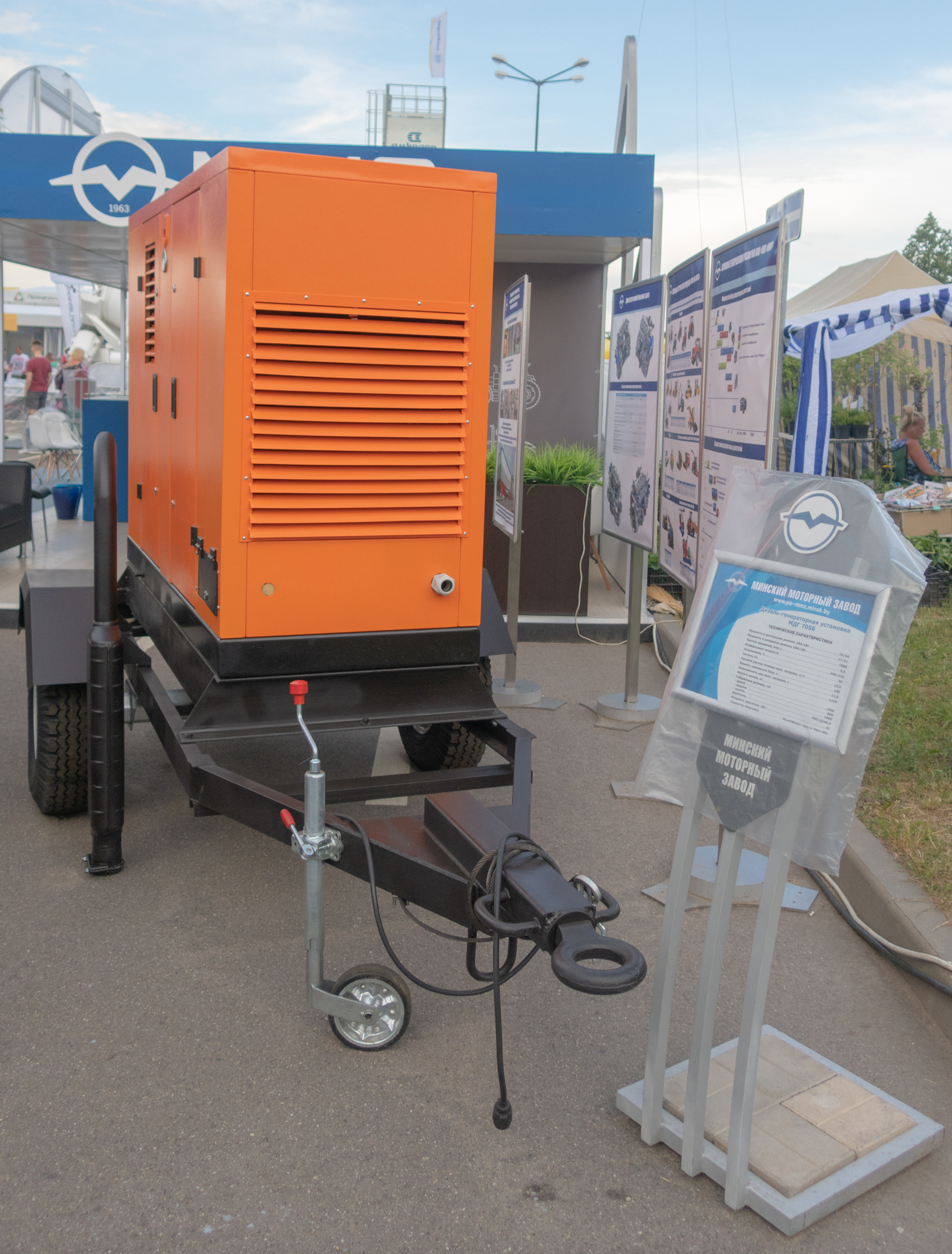 Diesel generator MDG-7056